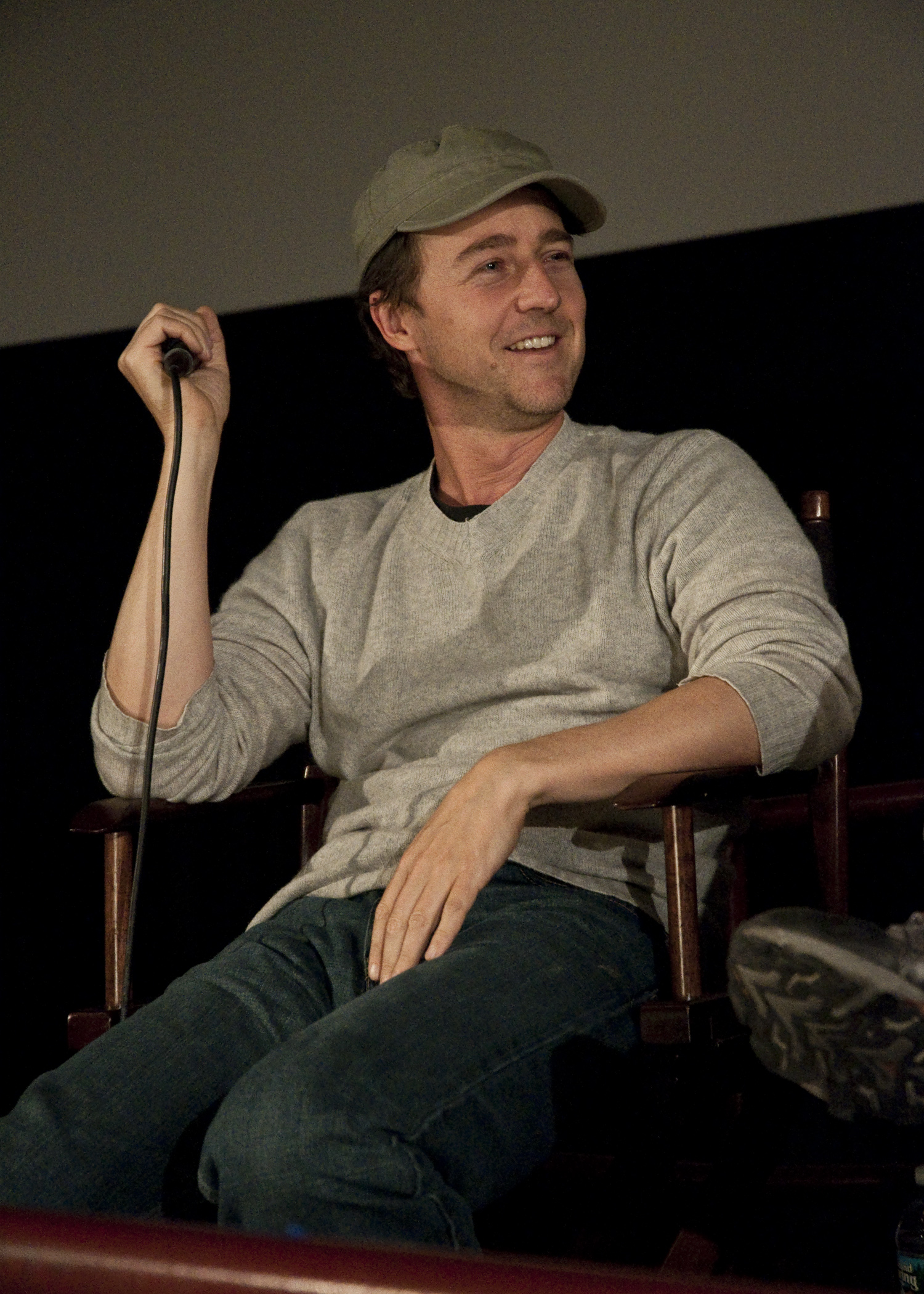 Edward Norton, taken February 1st 2010 in Paramus, New Jersey